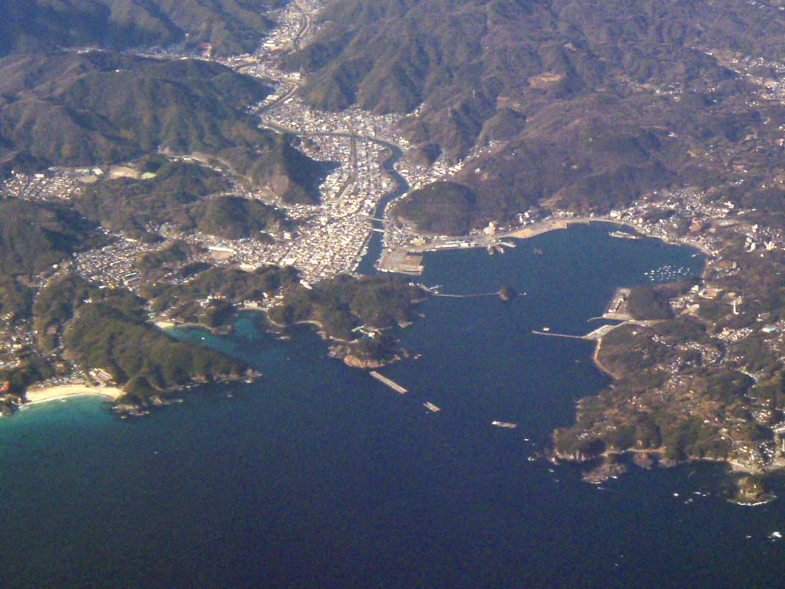 Aerial Photograph of Shimoda at Izu Peninsula in 2007.